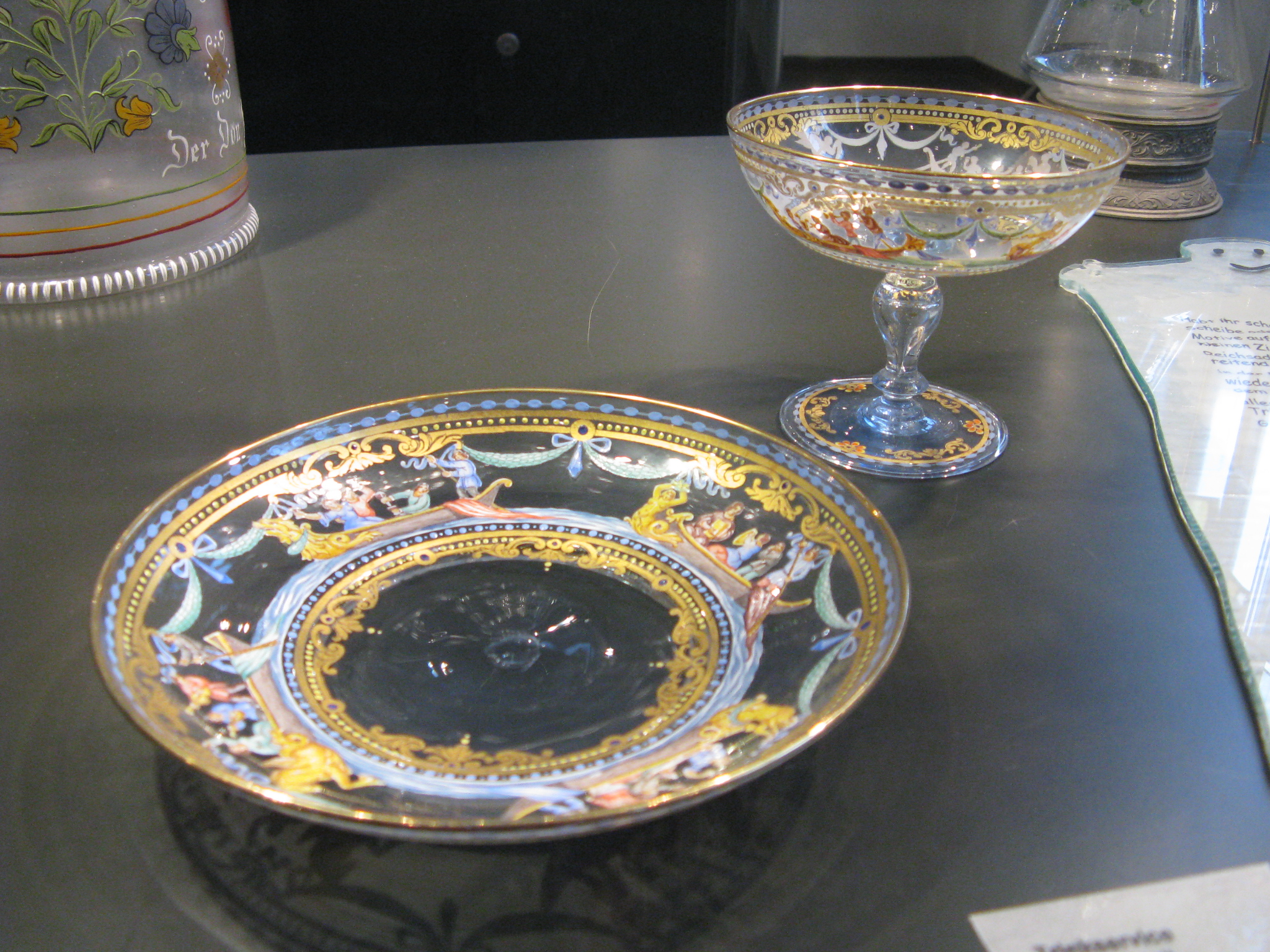 Lobmeyr, Wertheim glass museum, around 1880